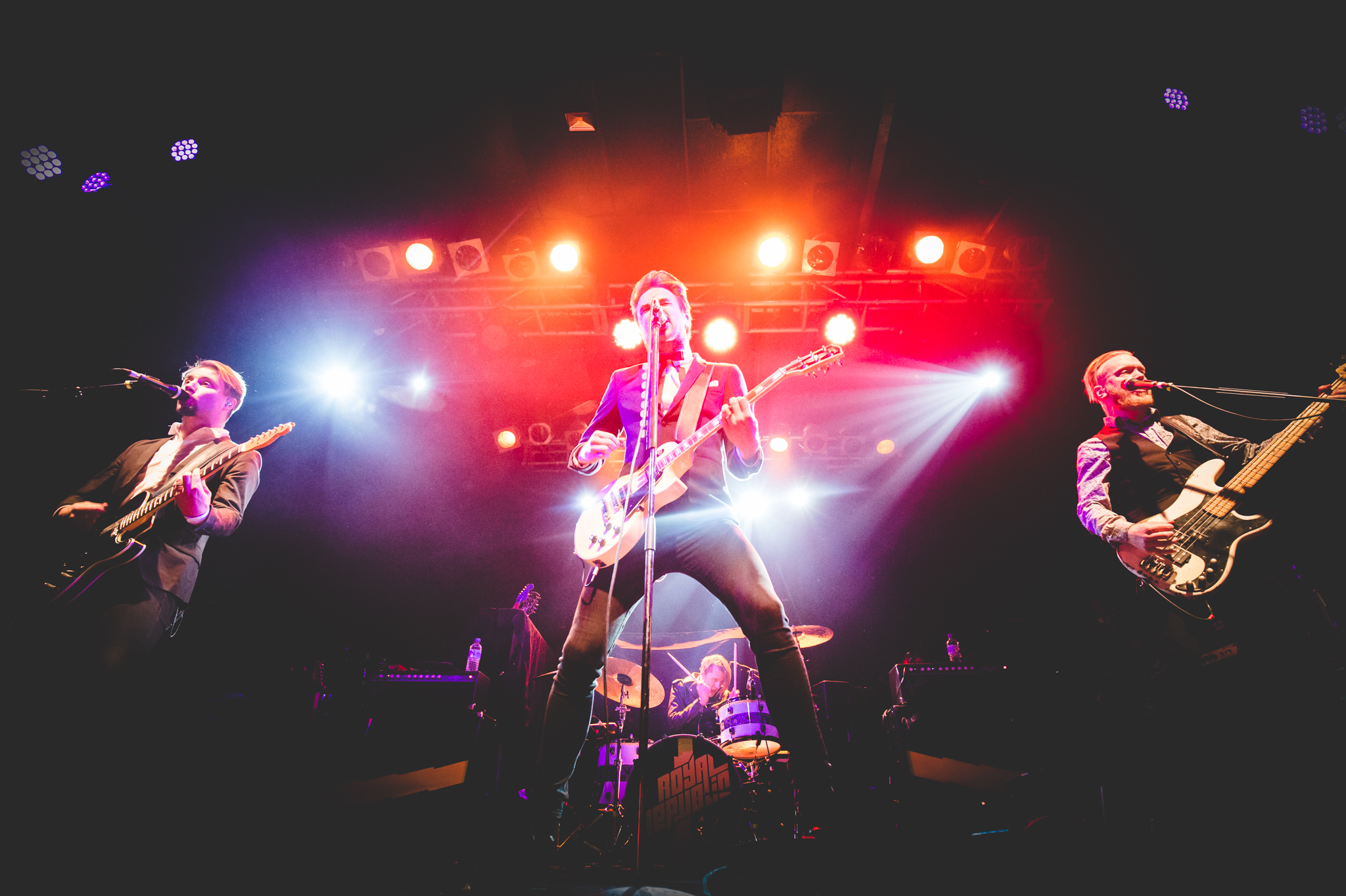 Royal Republic live at Electric Ballroom in London, 2016